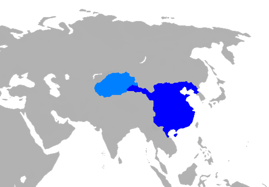 Map of Han Dynasty in 2 CE. Modification of Image:Han Dynasty Plain map.PNG darkest blue is the commandaries and principalities of the Han Empire. light blue is the Tarim Basin protectorate.